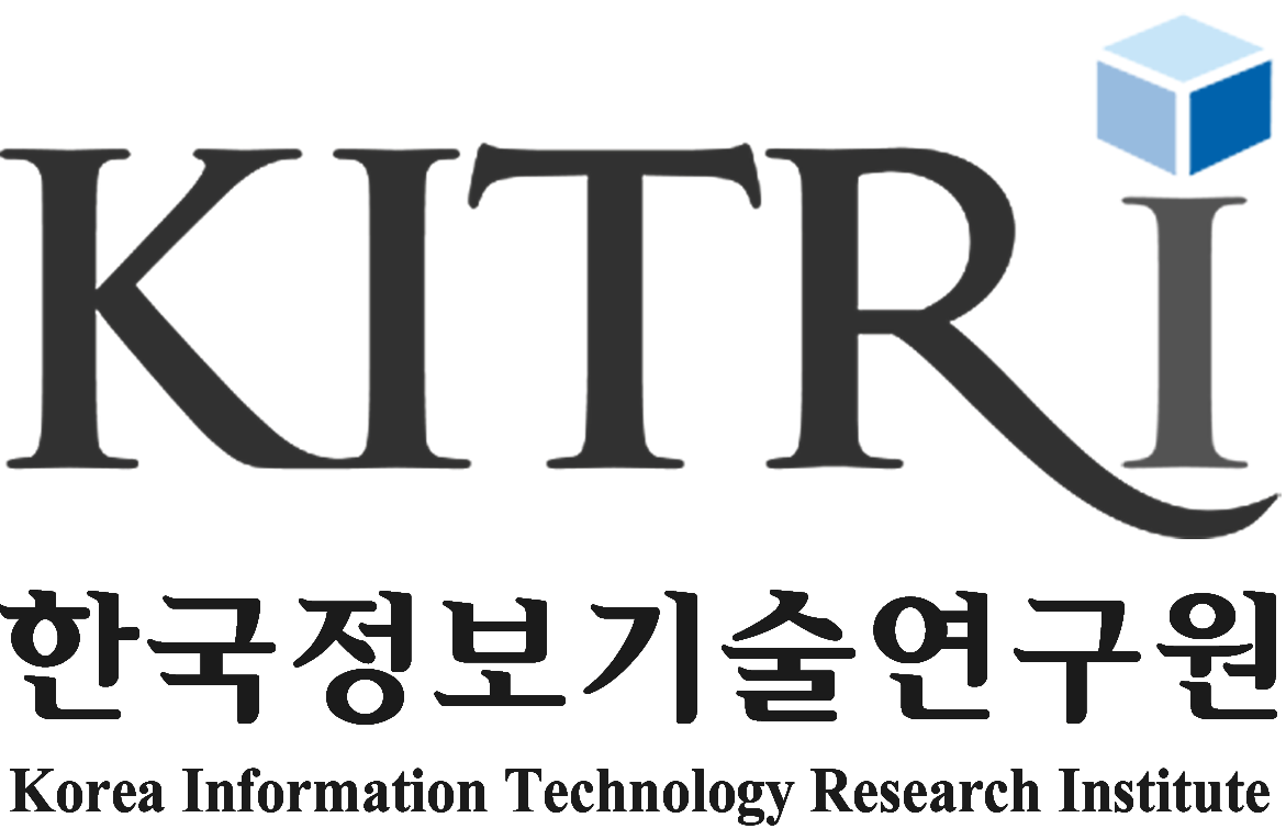 Logo for KITRI